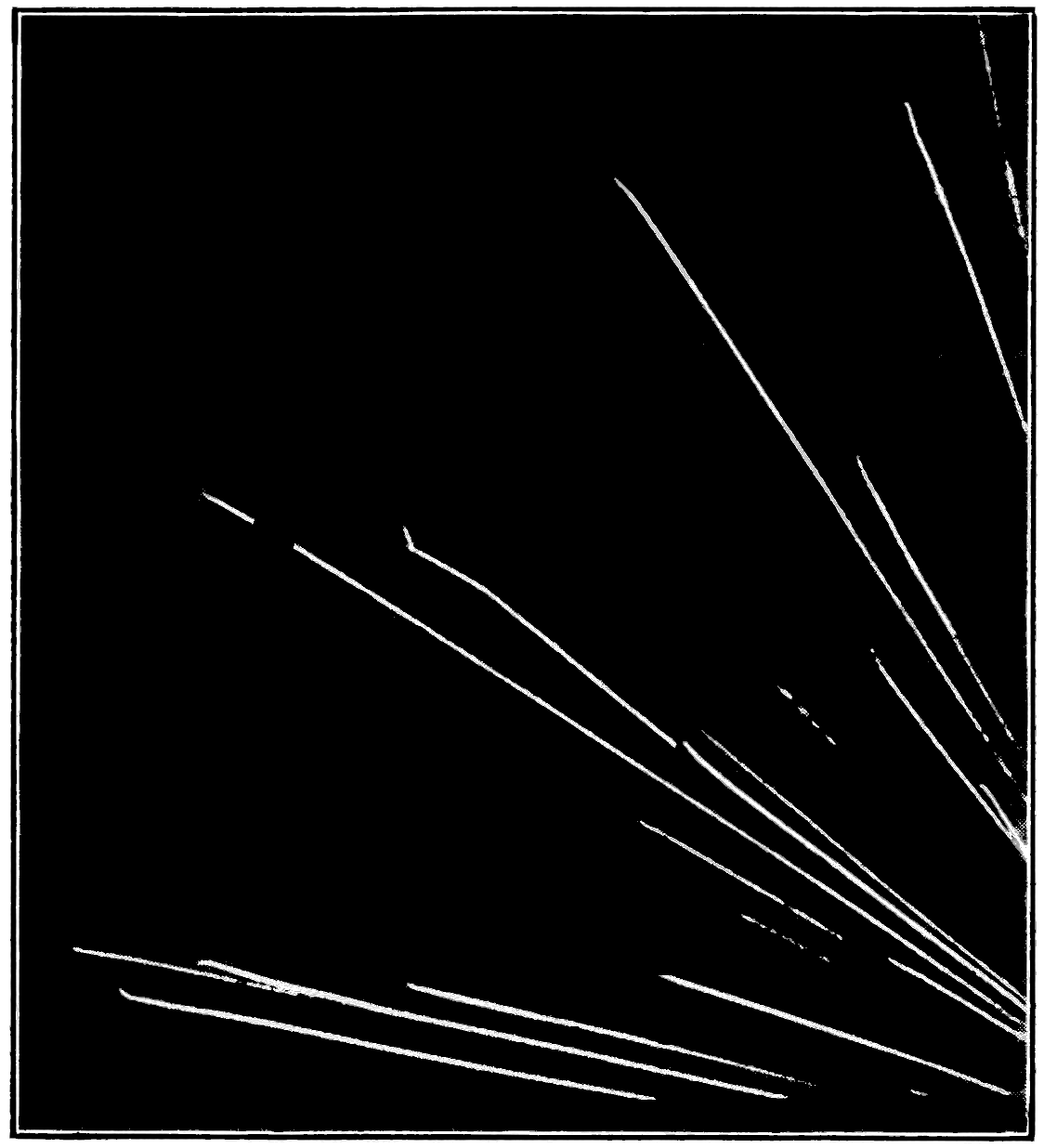 Magnified track of alpha particles